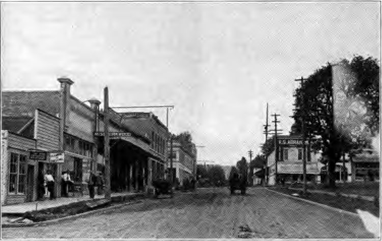 Downtown in Forest Grove, Oregon circa 1920